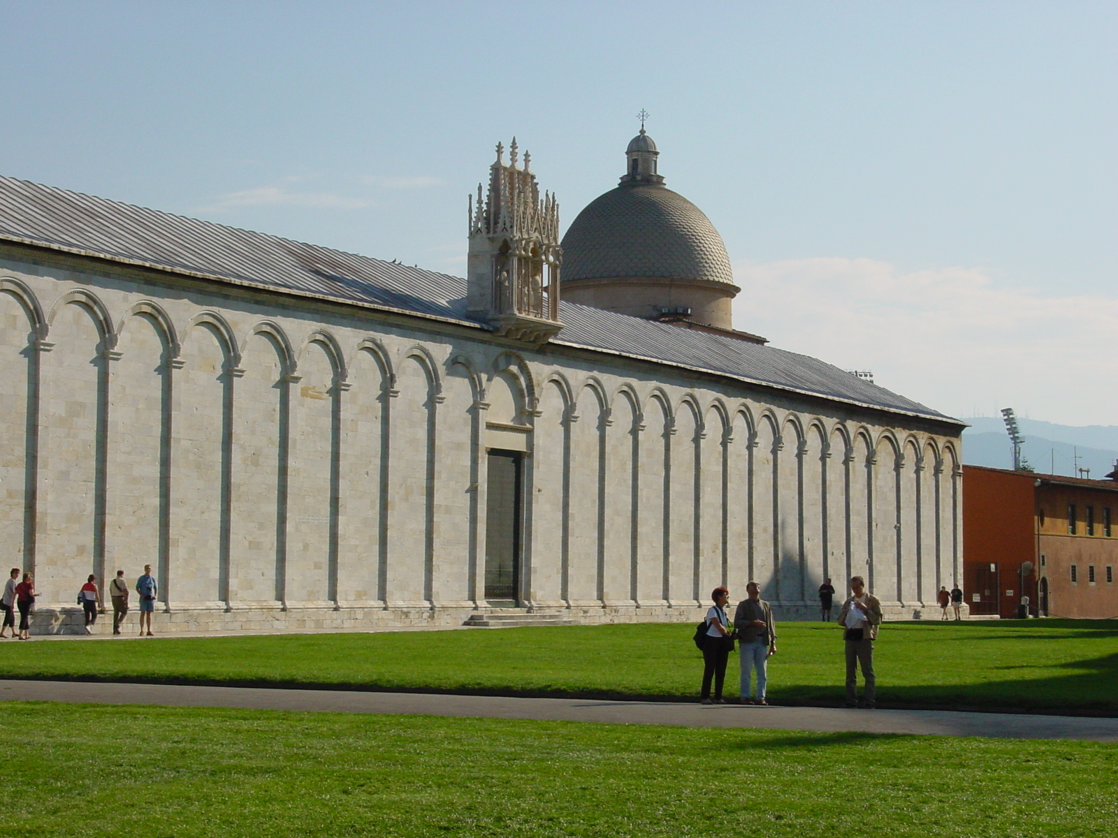 Facade of the Camposanto di Pisa.